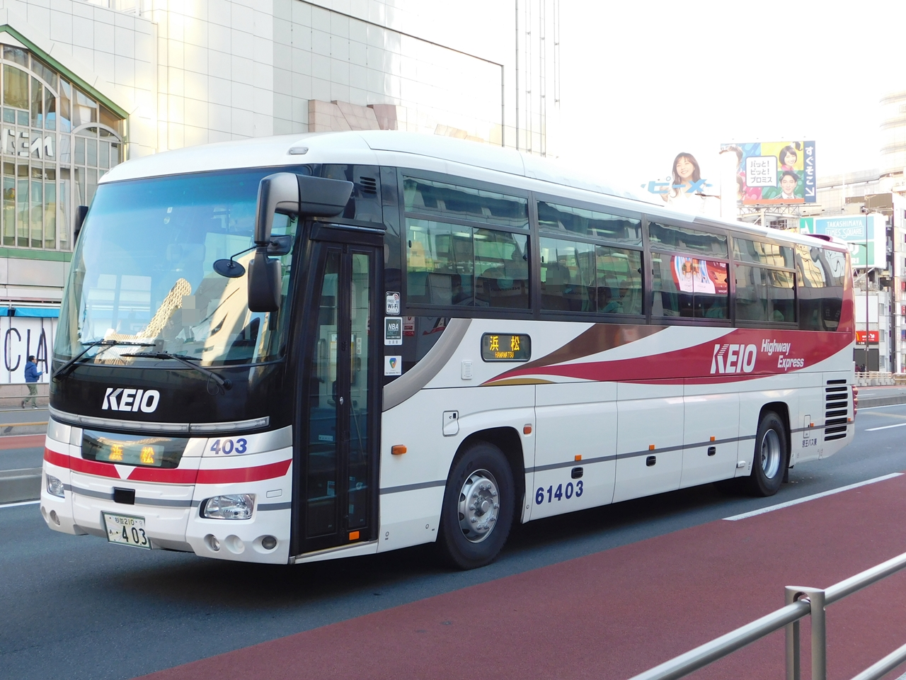 Keio bus higashi(east) Hino S'elega (QRG-RU1ASCA)on highwaybus "Shinjuku,Shibuya-Hamamatsu"